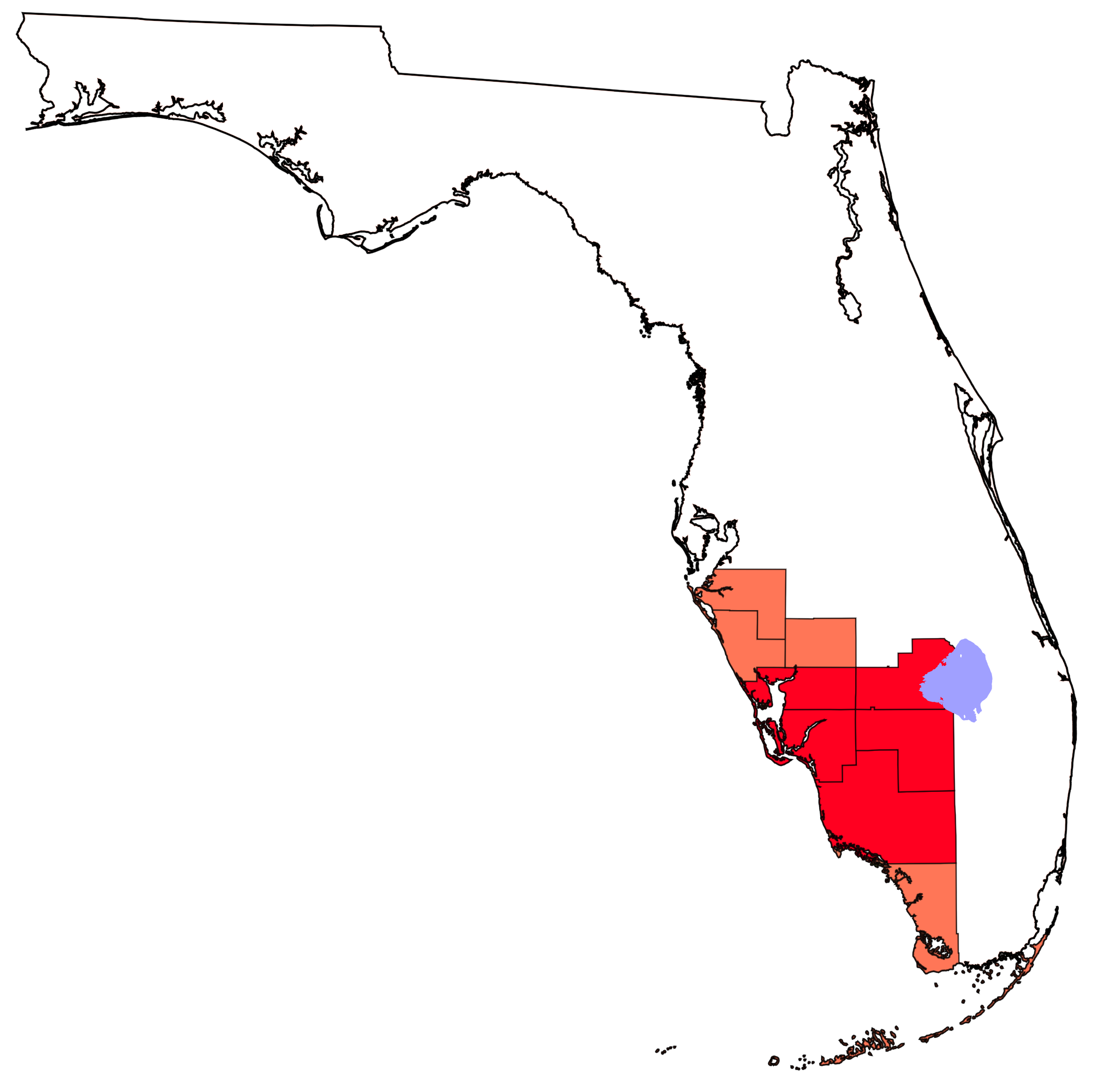 Rework of a Wikipedia Florida region map.